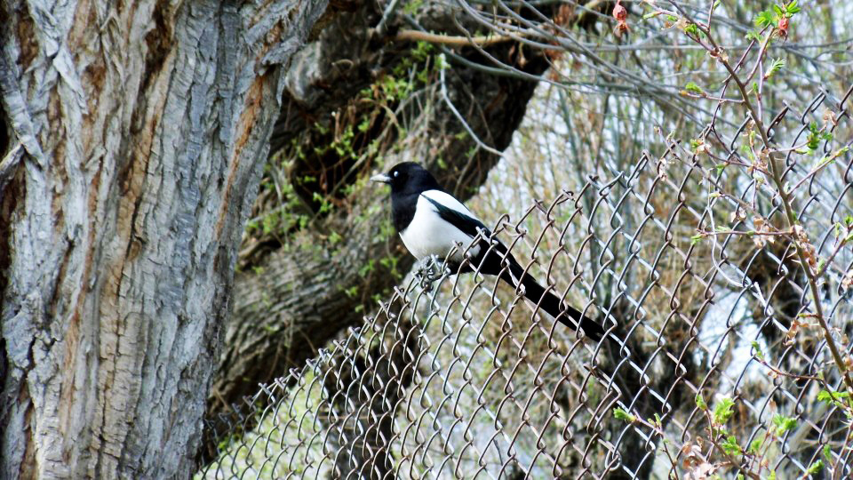 Photo Credits: Anayat Ali Shotopa